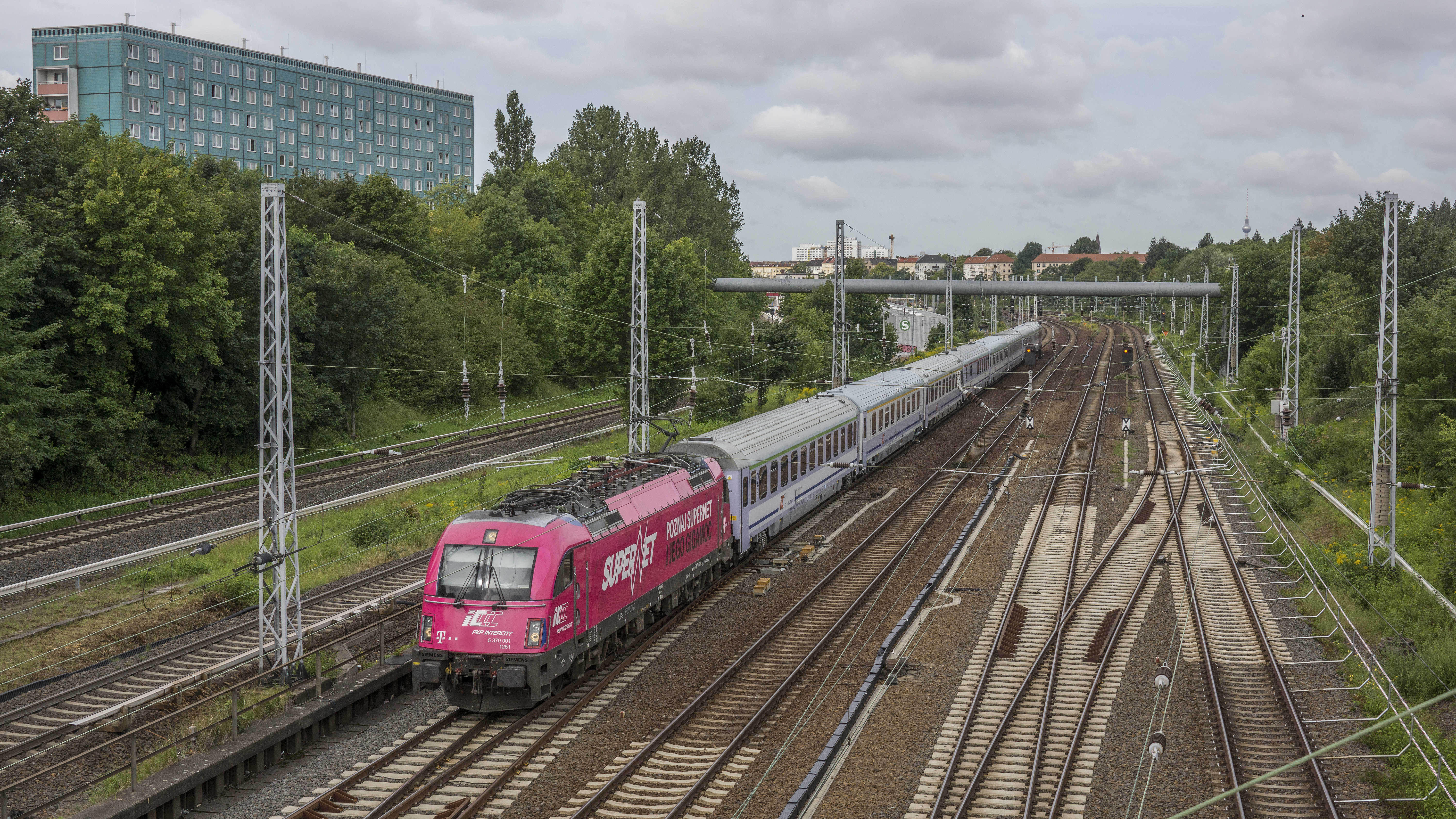 EuroCity train EC 43 from Berlin Gesundbrunnen to Warszawa Wschodnia.